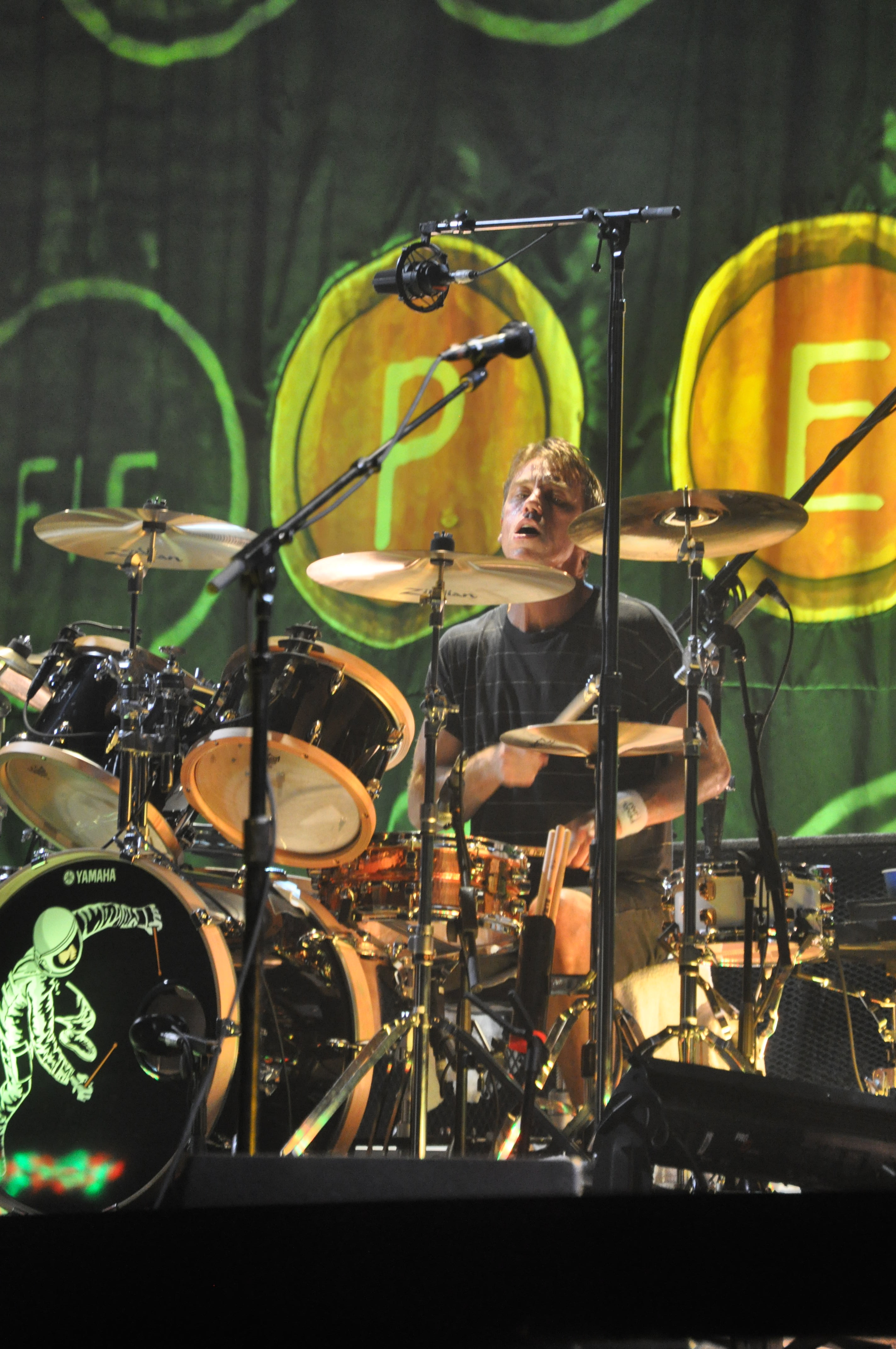 Matt Cameron performing with Pearl Jam in 2009